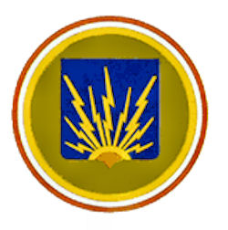 Emblem of World War II 361st Fighter Group Source: USAF, Maurer, Maurer (1983). Air Force Combat Units Of World War II. Maxwell AFB, Alabama: Office of Air Force History. ISBN 0892010924.